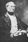 Henry Wolsey Bayfield